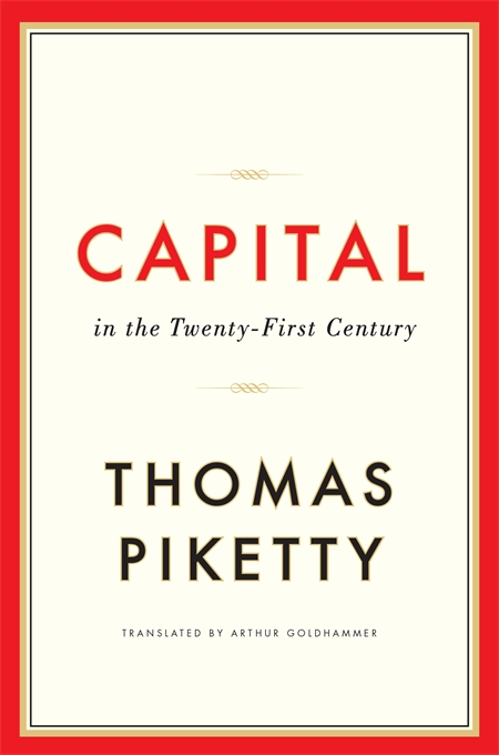 The cover page of the book Capital in the Twenty-First Century